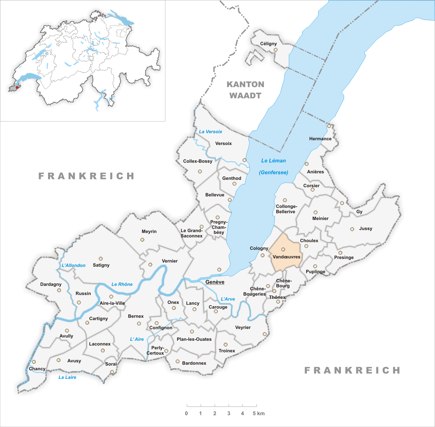 Municipality Vandœuvres